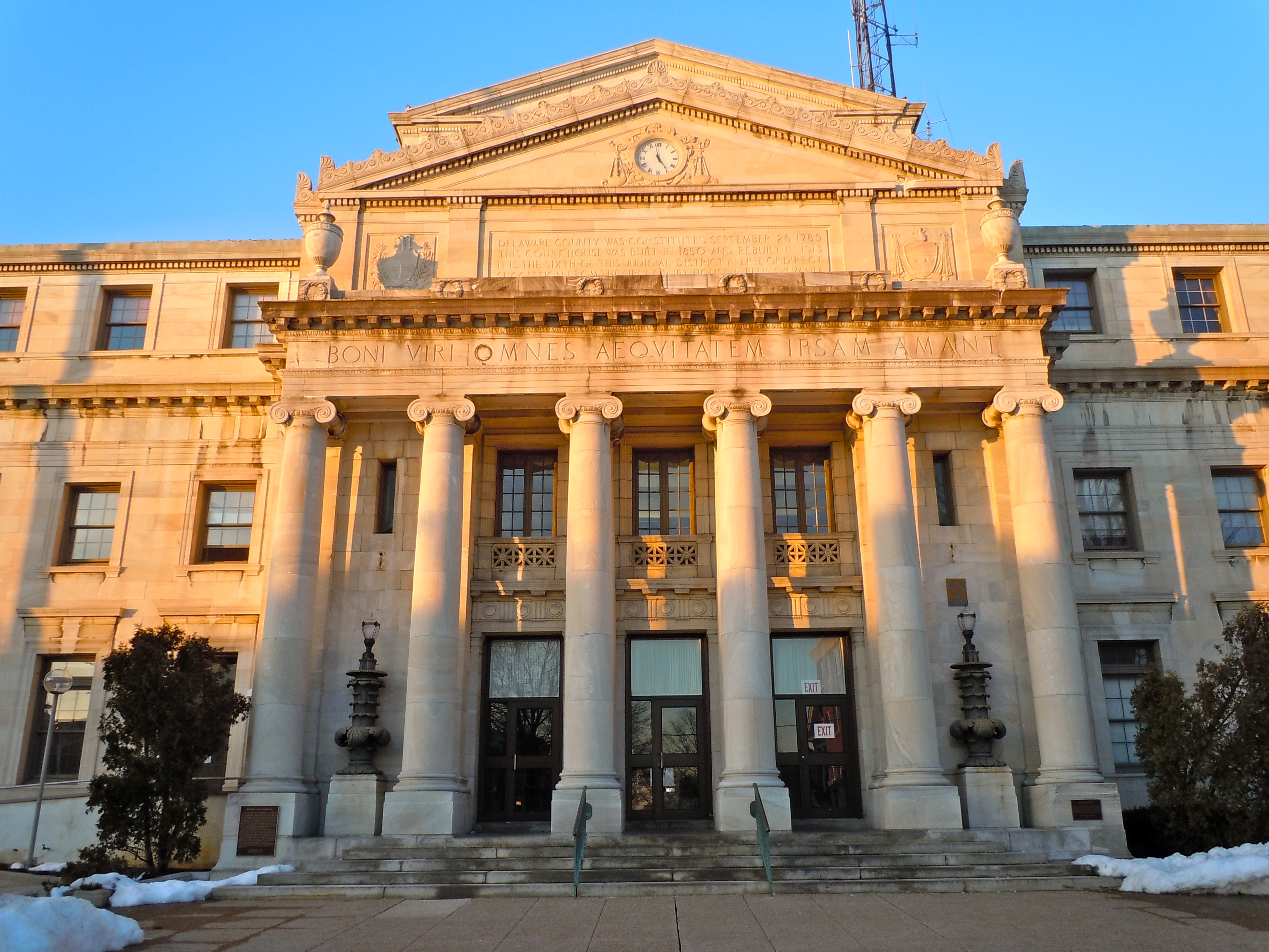 Delaware County Courthouse, viewed from the south, in Media, Pennsylvania